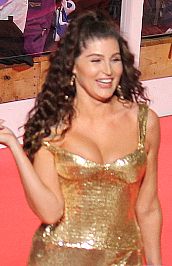 from Trace Lysette wearing a long golden gown, metallic looking gown at the 2019 Toronto International Film Festival.